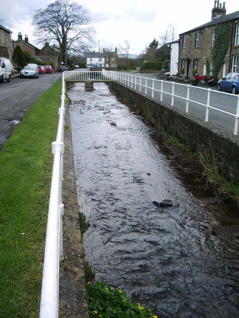 Pendleton Brook as it goes through Pendleton